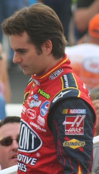 NASCAR driver Jeff Gordon in August 2007 at Bristol Motor Speedway. Cropped from original